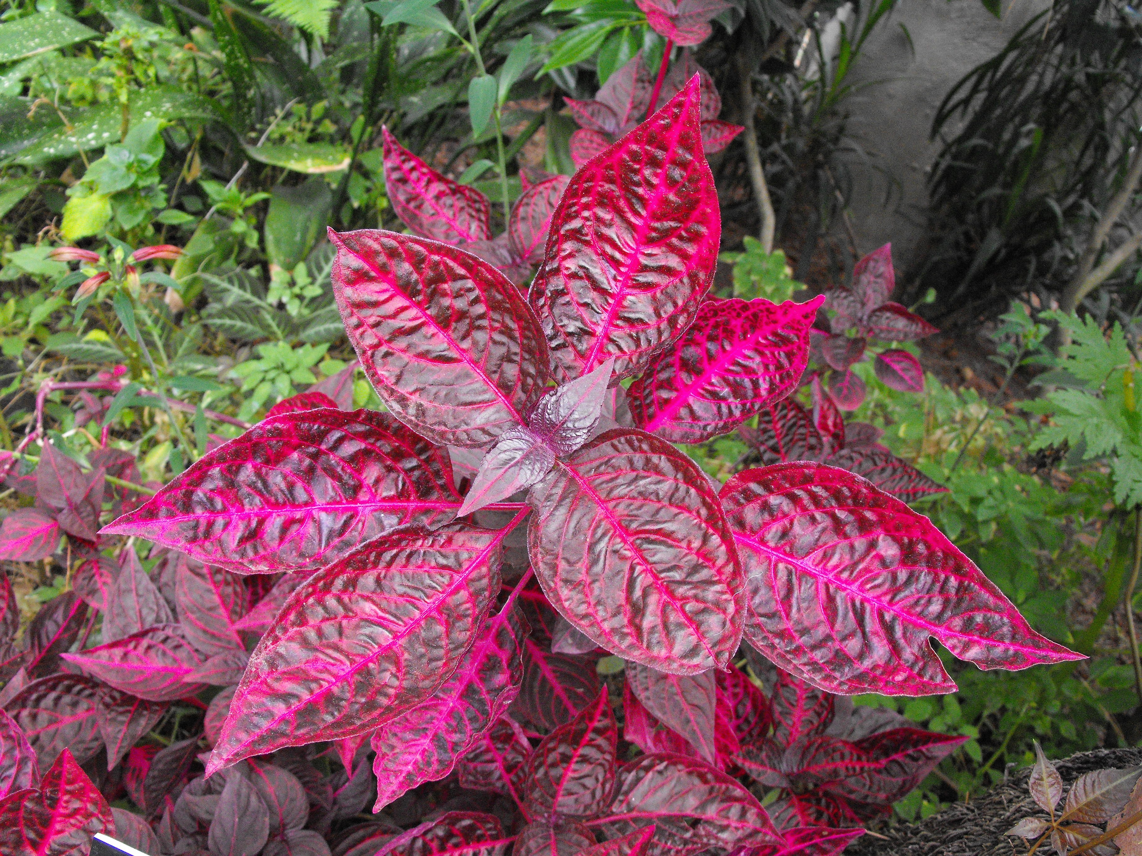 Iresine lindenii in the Botanical Building at Balboa Park, San Diego, California, USA